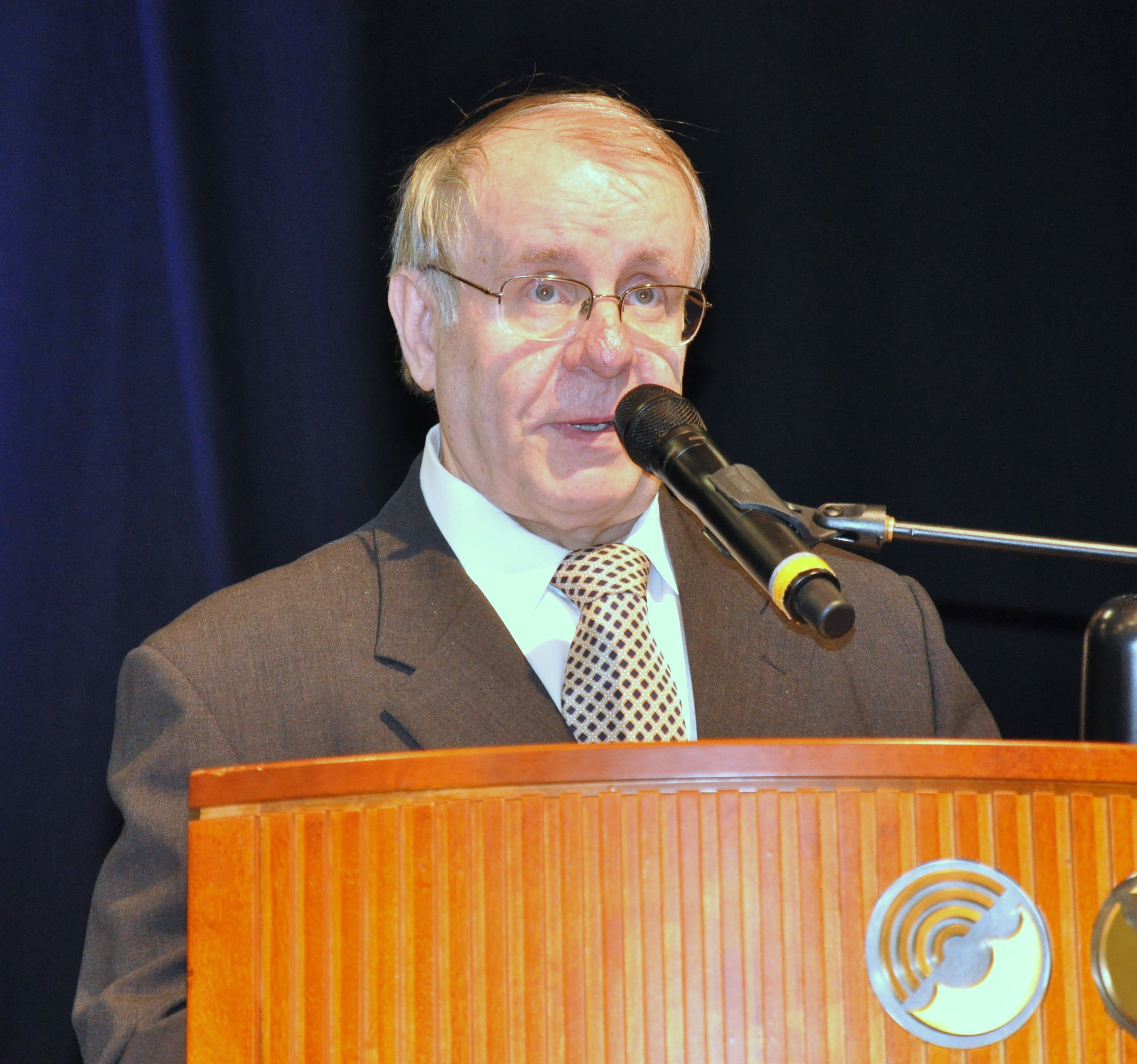 Erkki Laatikainen, former editor of Finnish newspaper Keskisuomalainen, speaking at the Jyväskylä Book Fair 2009.